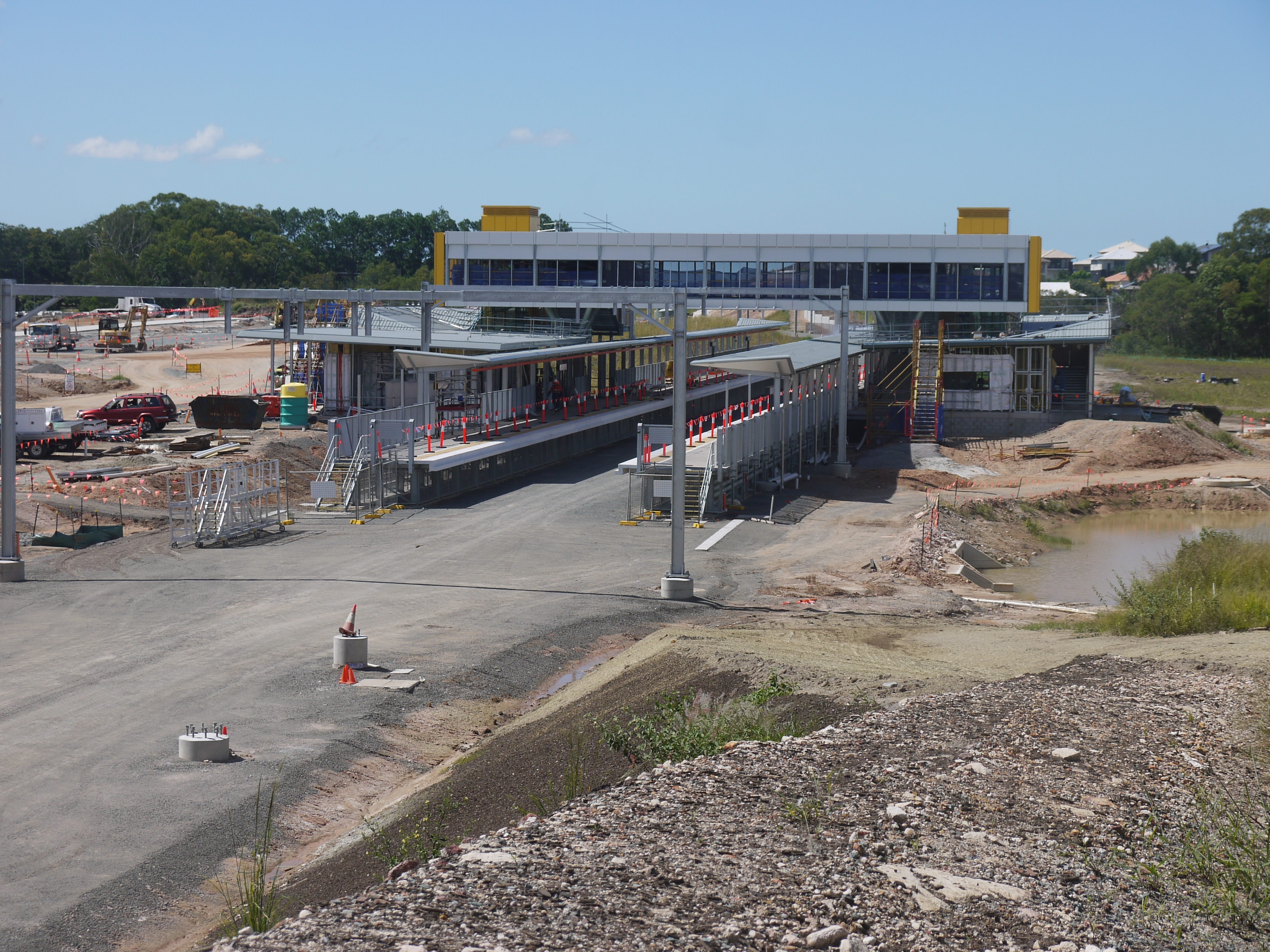 Mango Hill Station under construction - Looking east from Freshwater Creek Road overpass